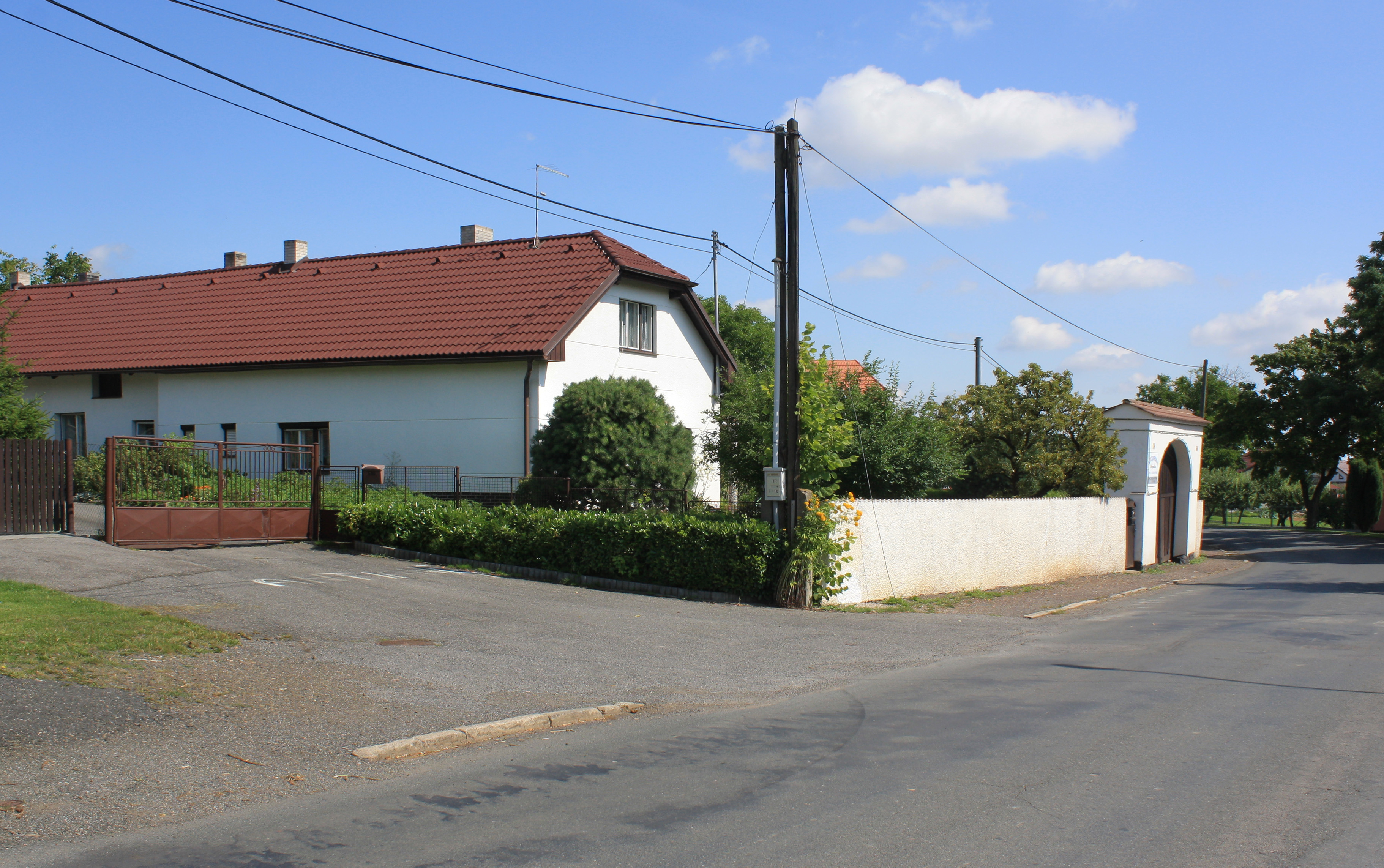 Old farm in Podluhy, Czech Republic